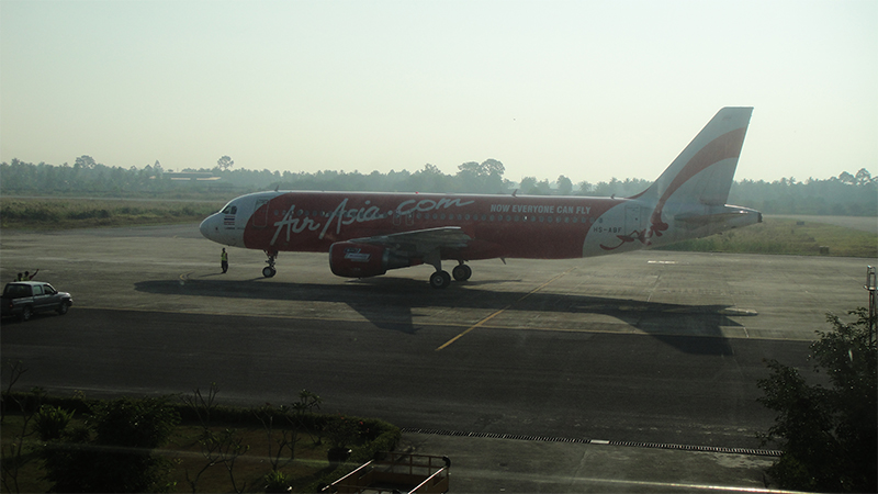 AirAsia parking at Nakhon si thammarat Airport